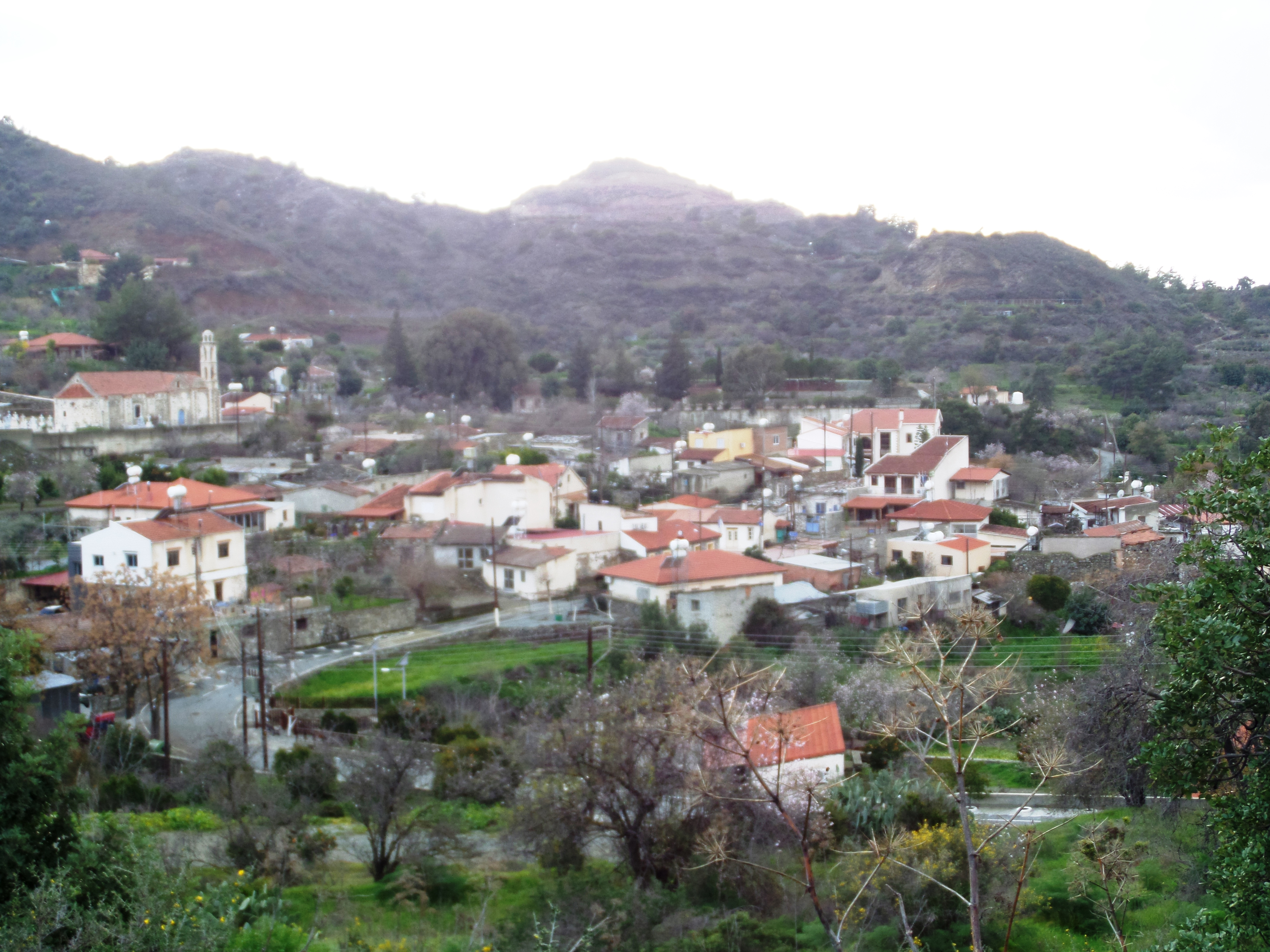 View of Prastio (Kellaki).